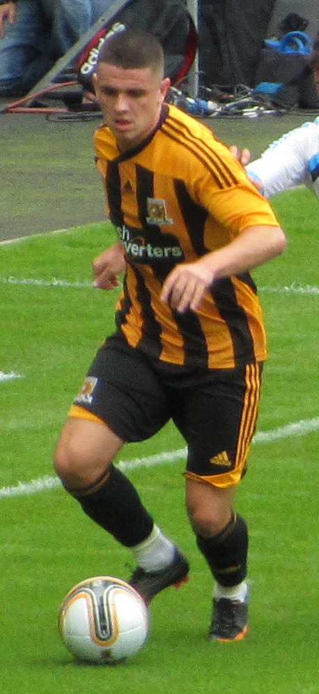 Robbie Brady